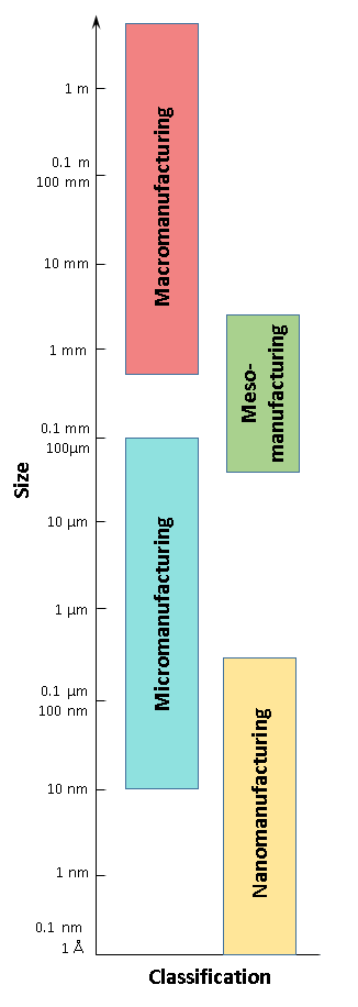 Describe different classes of manufacturing processes.